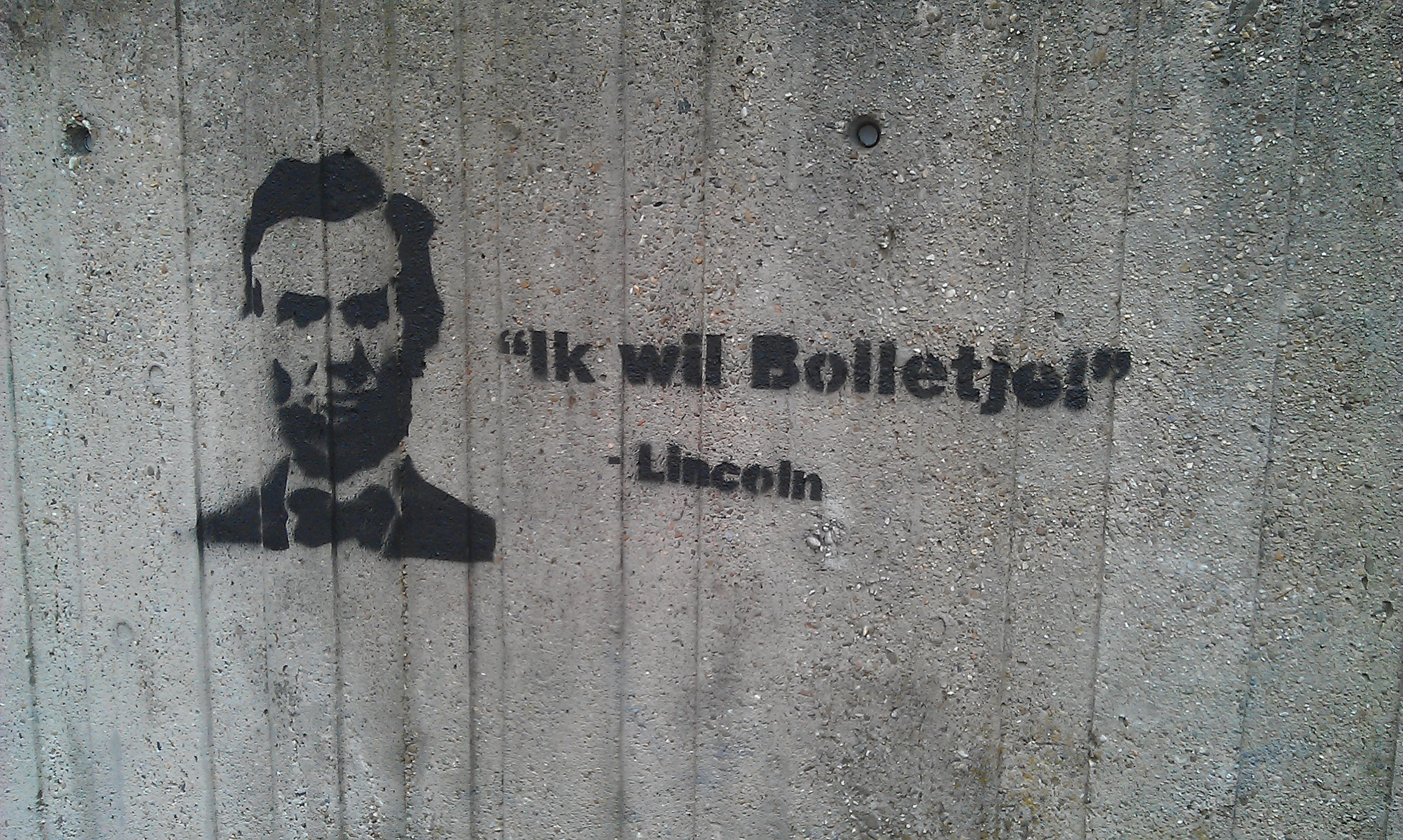 Graffiti of Abraham Lincoln referring to a popular Dutch joke.